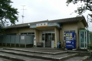 Heizu Station